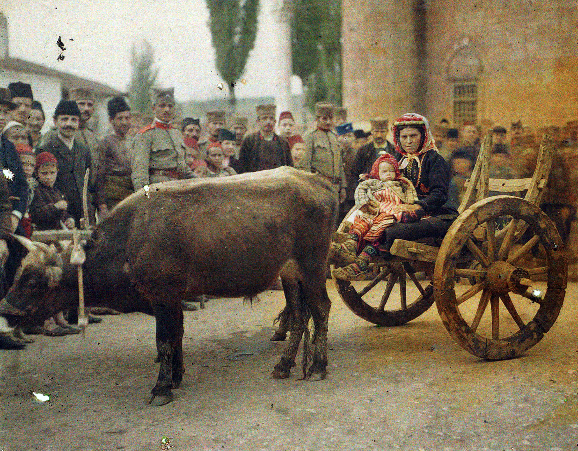 Pristina-Gracanica Busha cattle, Serbian soldiers and villagers 1913